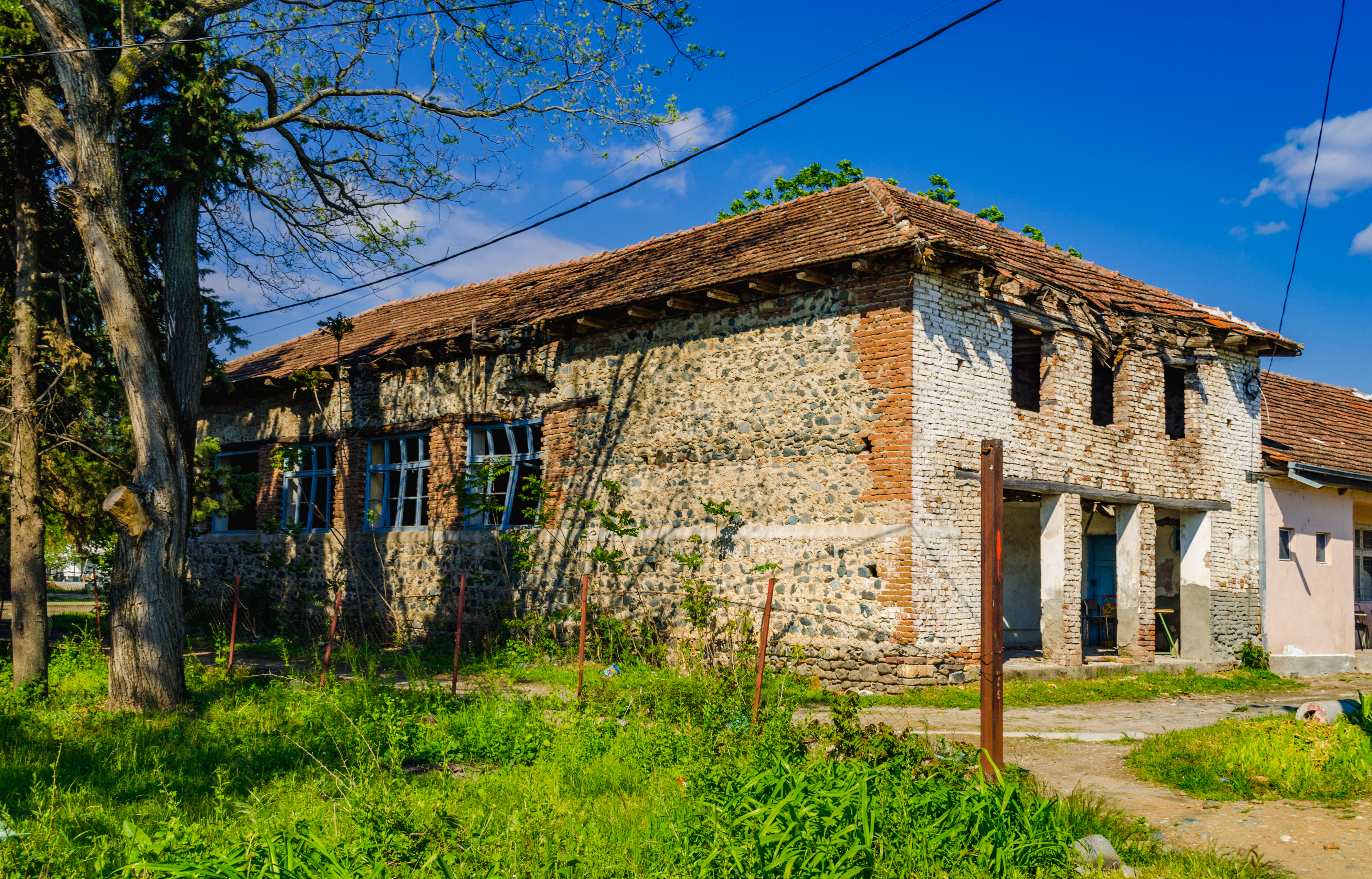 Ruined former youth center in the village Moin